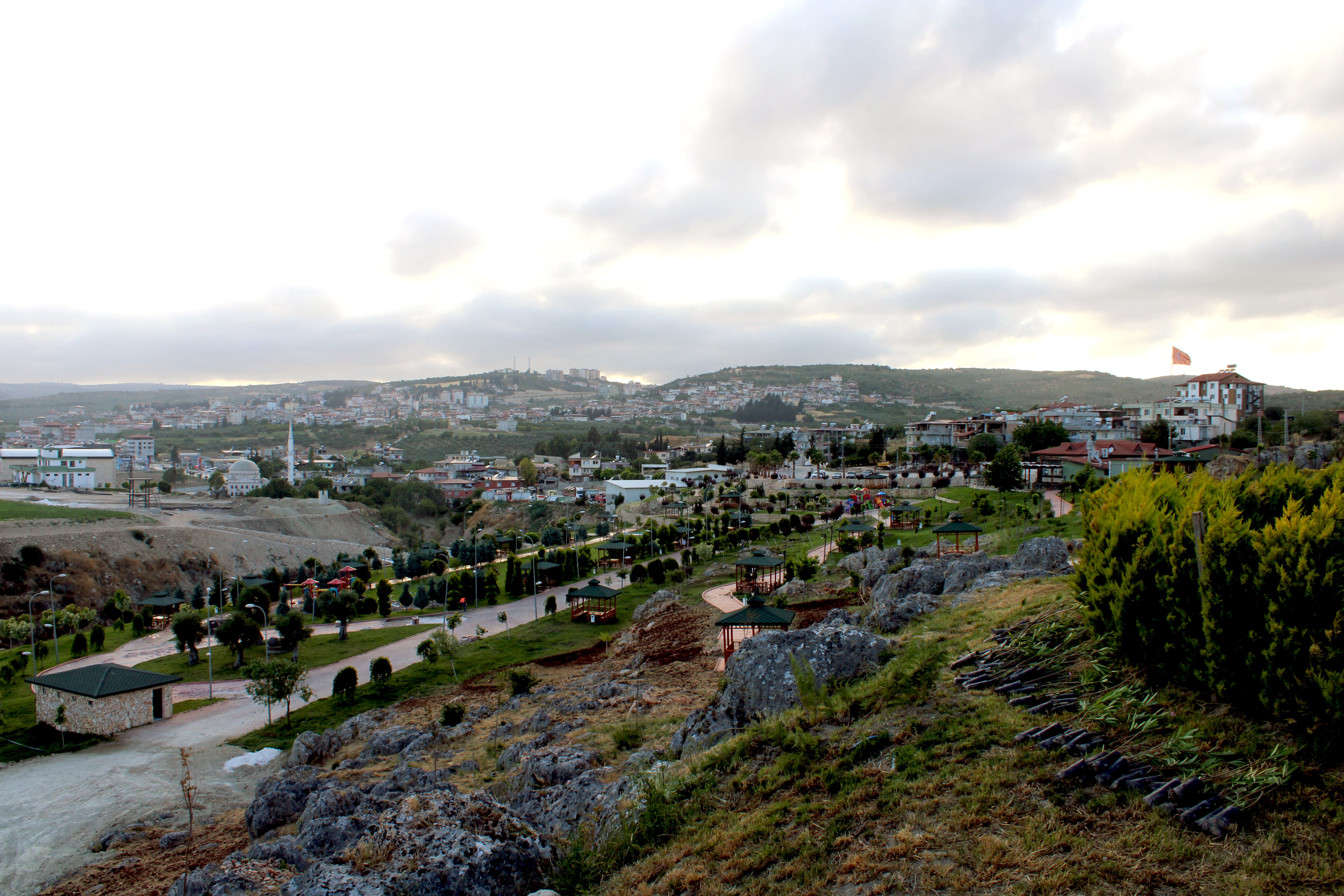 Altınözü Glass Terrace